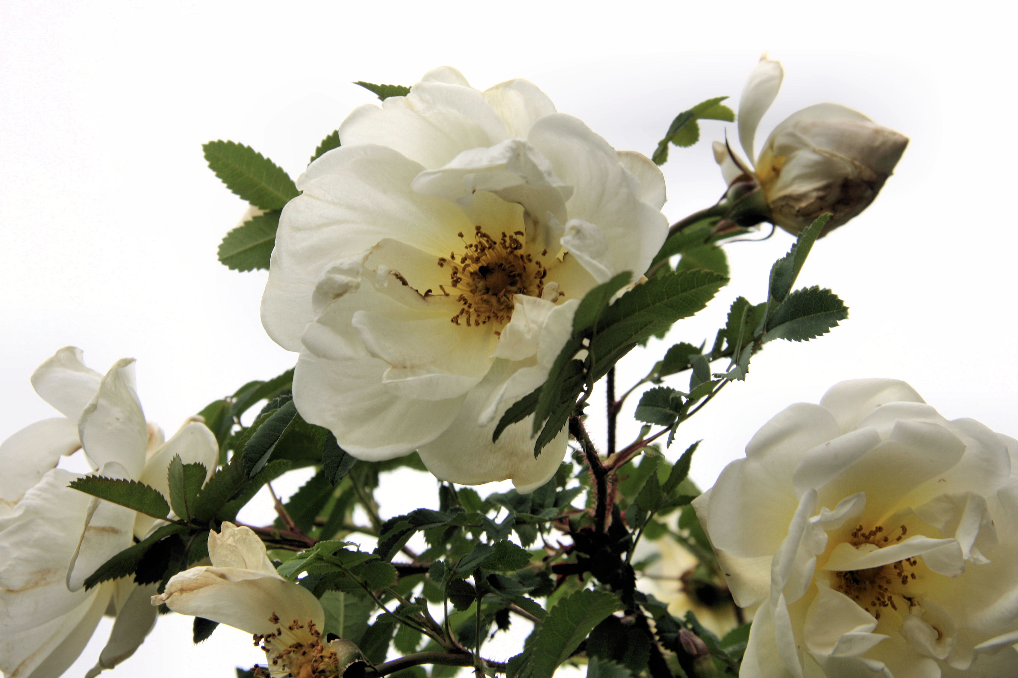 Rosa pimpinellifolia 'Plena' or the Midsummer rose as the Finns call it. Helsinki, Finland.